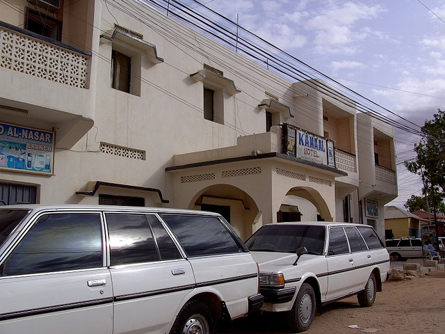 Entrance to Kamaal Hotel in Galkacyo, Puntland, Somalia.